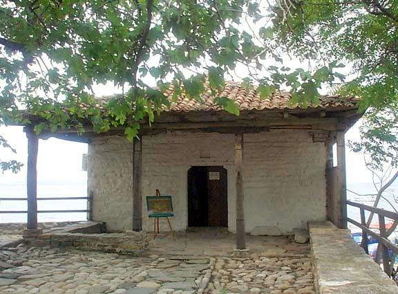 Outside View, image from the Christian Halkidiki Exhibition, Ouranoupoli, Central Macedonia, Greece